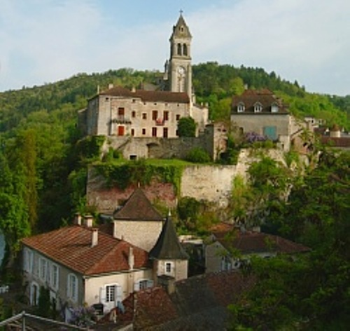 Church of Albas, Lot, France